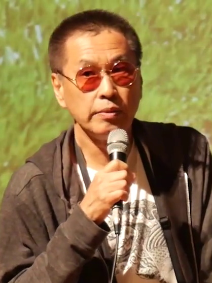 Thiravat Hemachudha at the DOC+TALK: Circle of Poison event